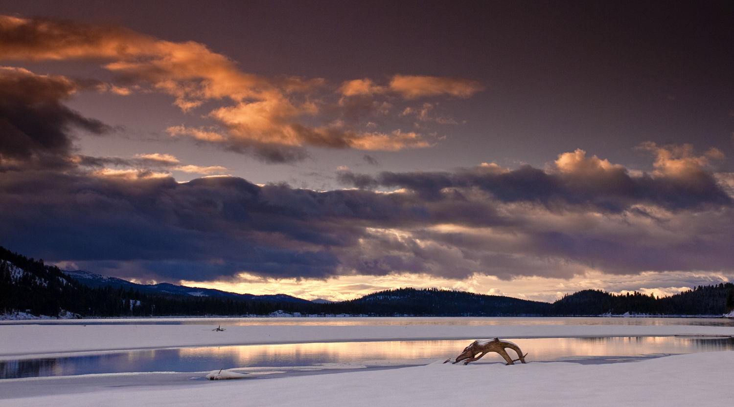 Winter sunrise at the north shore of Payette Lake, Idaho. The morning was as still as can be. Cool subtle breeze coming from the east, I could hear small air bubble passing below the ice near me. I hear a twig break, it was a small deer coming down from the mountain for a drink. Slowly the sun begins to give me a preview of the glory that would be created before my lens this day.